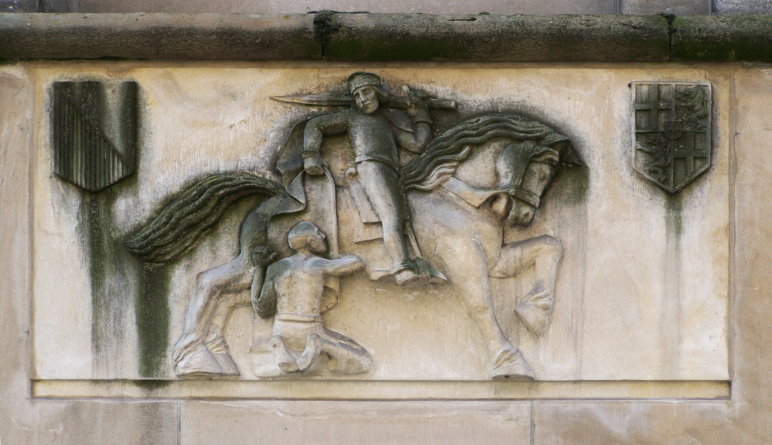 Relief of saint Martin with a beggar, designed by Albert Termote and placed against the outer wall of the library at the Choorstraat in Utrecht. This building used to be a department store of V&D, a design by Jan Kuyt in 1932. The relief was designed by Termote but made by Adrianus Johannes Dresmé. The original was lost, and in 2002 replaced by a copy by Ton Mooy.